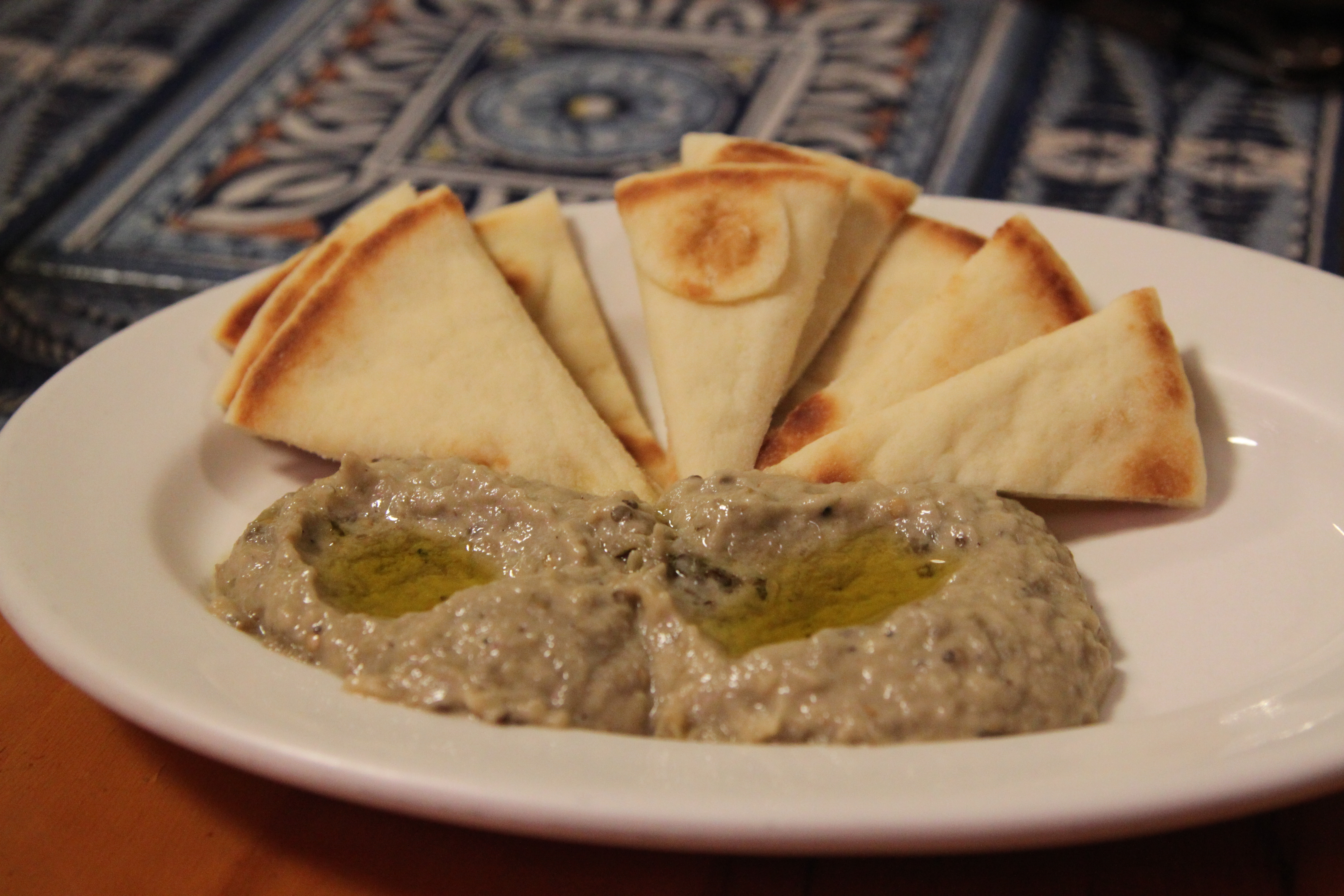 Baba ganoush and pita